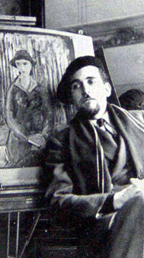 Venezuelan artist Braulio Salazar (1917-2008) in 1949.